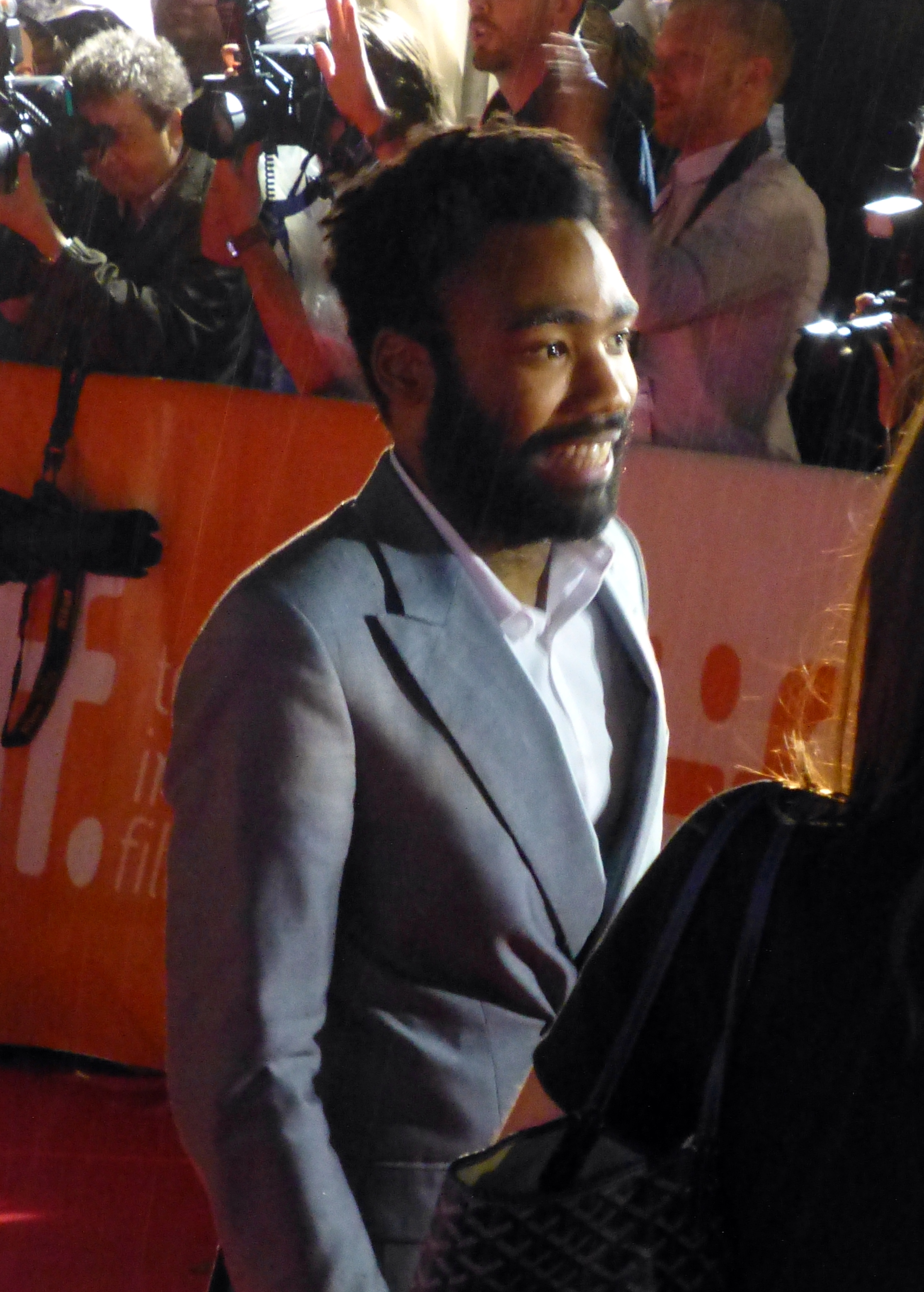 Donald Glover at the premiere of The Martian, 2015 Toronto Film Festival